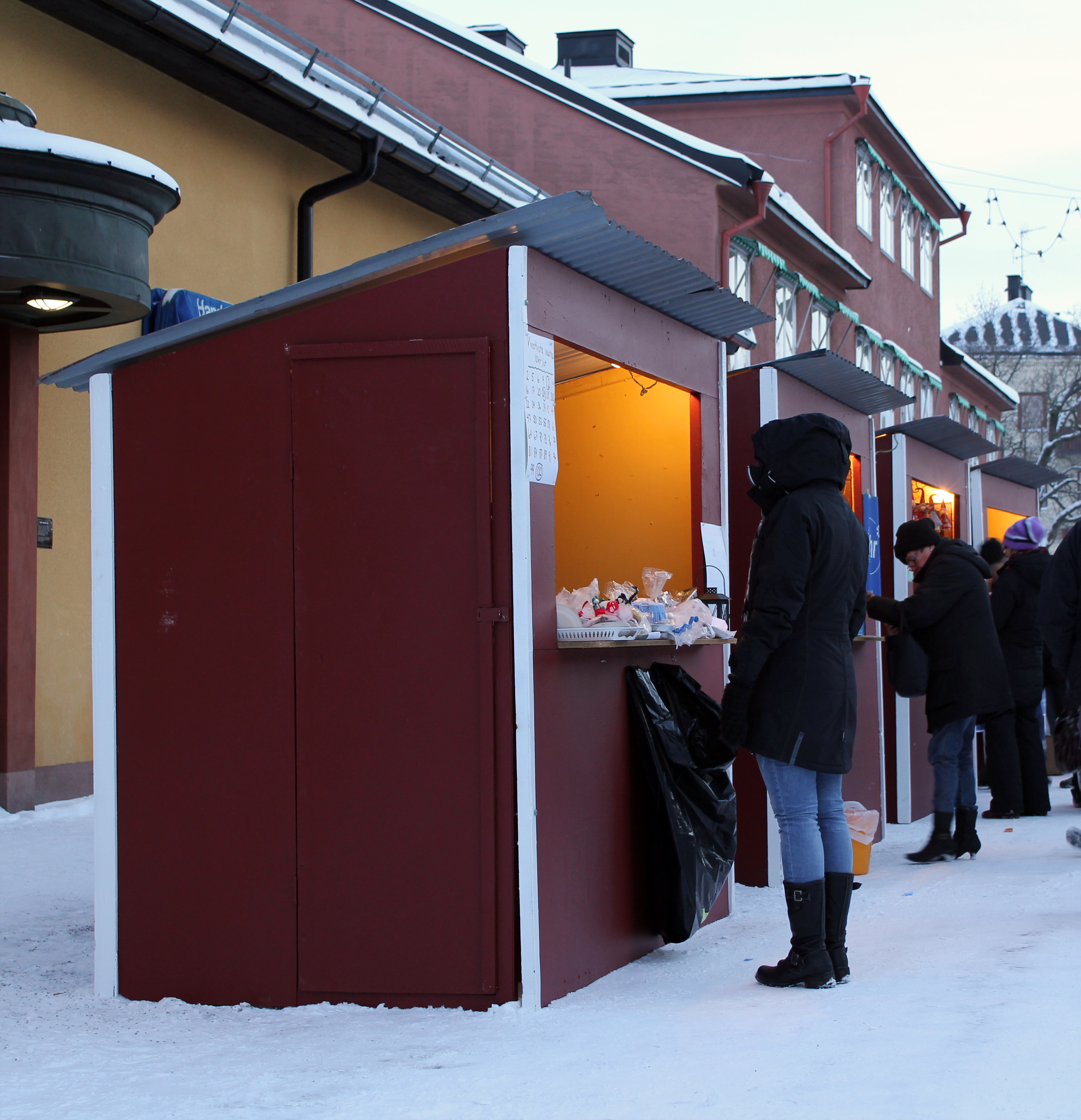 Lottery stalls at "julskyltning" (sort of christmas market), Hedemora, Sweden.